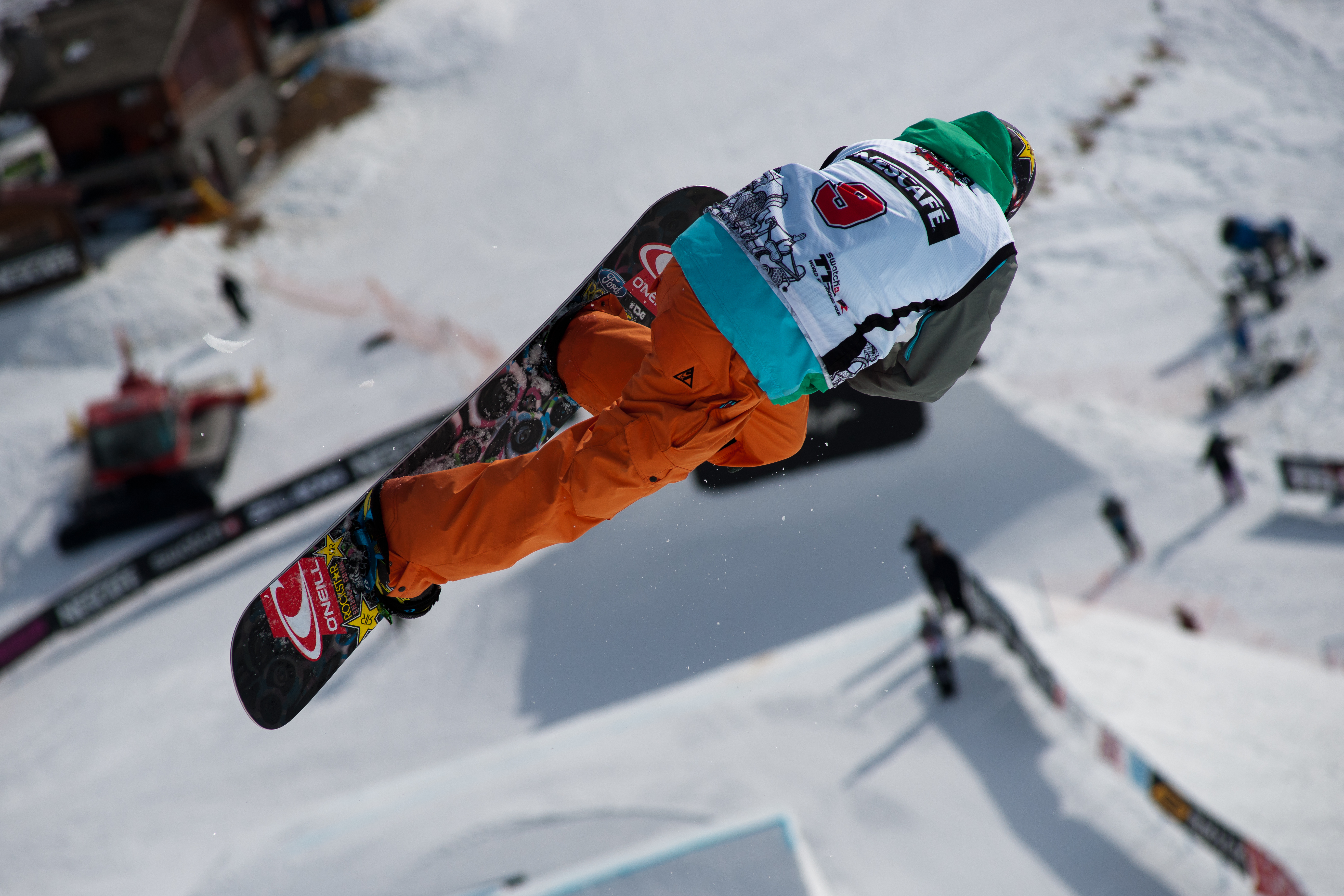 The making of this document was supported by Wikimedia CH. (Submit your project!) For all the files concerned, please see the category Supported by Wikimedia CH. 20th Leysin Nescafe Champs, 8th - 13th February 2011